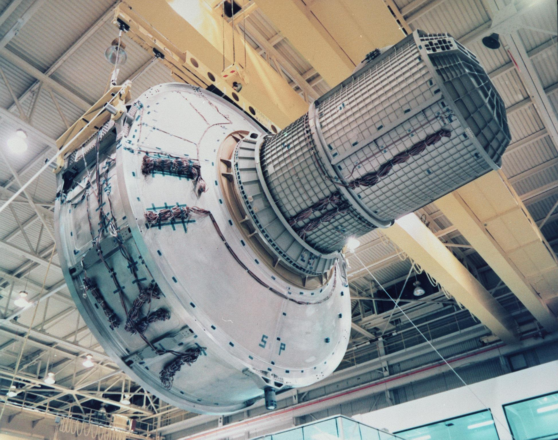 97-17428 --- The airlock for the International Space Station is lifted by crane in the fall of 1997 during manufacturing in the Space Station Manufacturing Building at the Marshall Space Flight Center in Huntsville, Al. The airlock includes two sections: the larger "equipment lock" on the left that will store spacesuits and associated gear and the narrower "crewlock" on the right from which astronauts will exit into space. The airlock is 18 feet long and has a mass of about 13,500 pounds. It will be launched to the station aboard Space Shuttle mission STS-100 in August 1999 (eventually STS-104 in July 14, 2001 became the launchdate). The addition of the airlock will enable U.S. astronauts on the station to perform spacewalks without a shuttle present. Orbital assembly of the International Space Station is scheduled to begin in the summer of 1998.